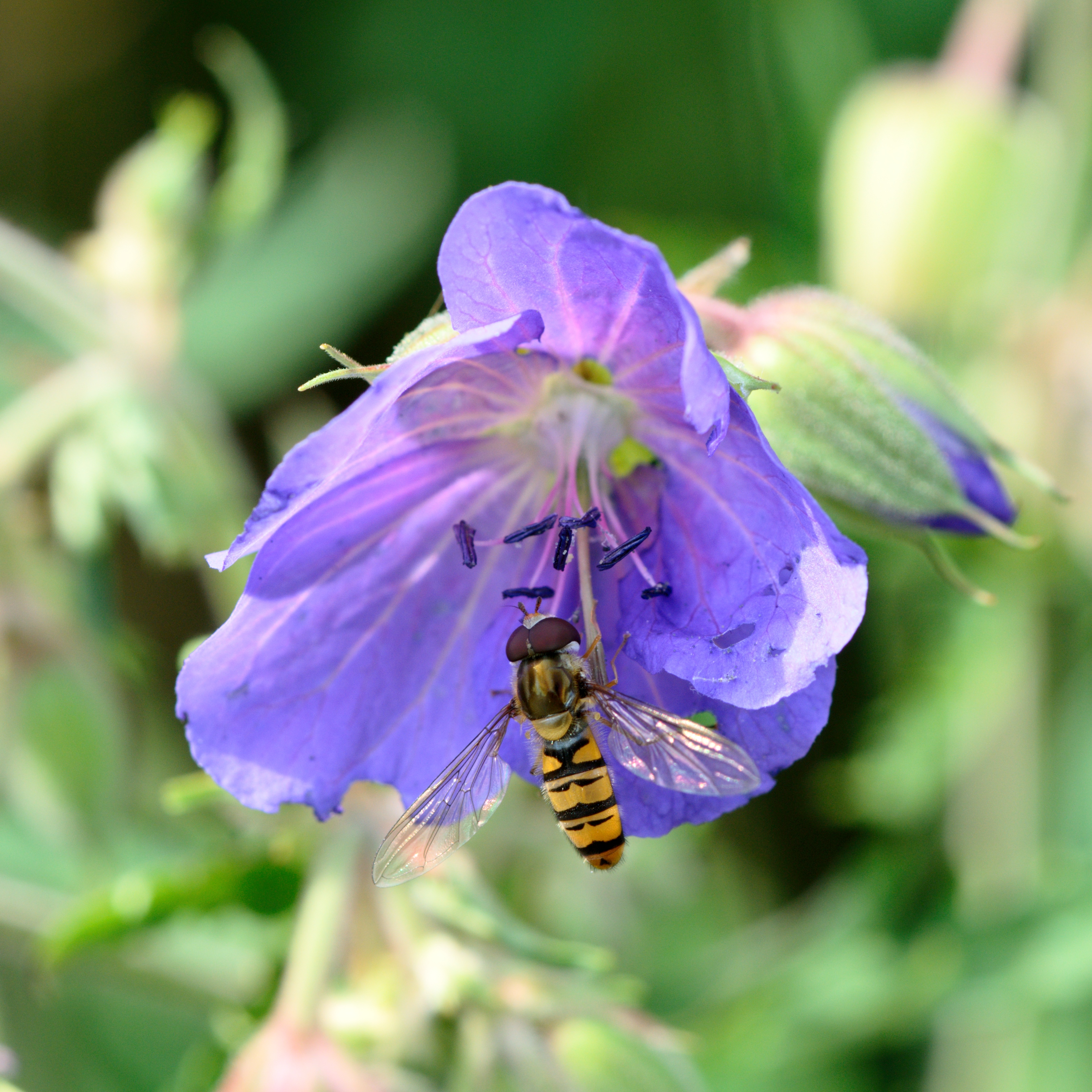 Episyrphus balteatus on a Geranium pratense flower.